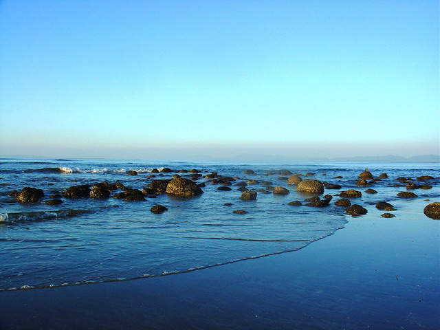 The Dead Corals of The Saint Martin's Island, Bangladesh Photo Courtesy: Mirza Salman Hossain Beg, Bangladesh